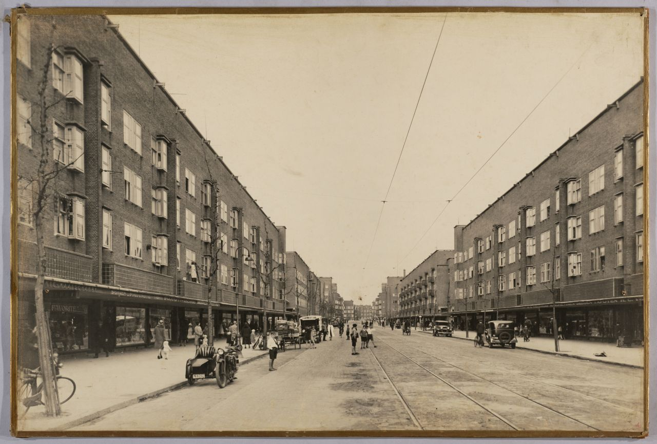 Plan West Amsterdam 1922-1927. Housing Jan Evertsenstraat, 1925. Architect: J. F. Staal (1879-1940). Photographer: unknown. NAI Collection / TENT_n199 Persistent URL: For more photographs from this collection, please visit the NAI Collection Database You can help us gain more knowledge on the content of our collection by adding a comment with information. If you do not wish to log in, you can write an e-mail to: All these pictures are taken in the first half of the twentieth century. We are curious to learn how these buildings look like today. If you have recently taken photographs of these buildings or locations, please add them to your comment. If you'd like to include a Flickr photo, simply copy and paste its URL between square brackets in the commentary-field.